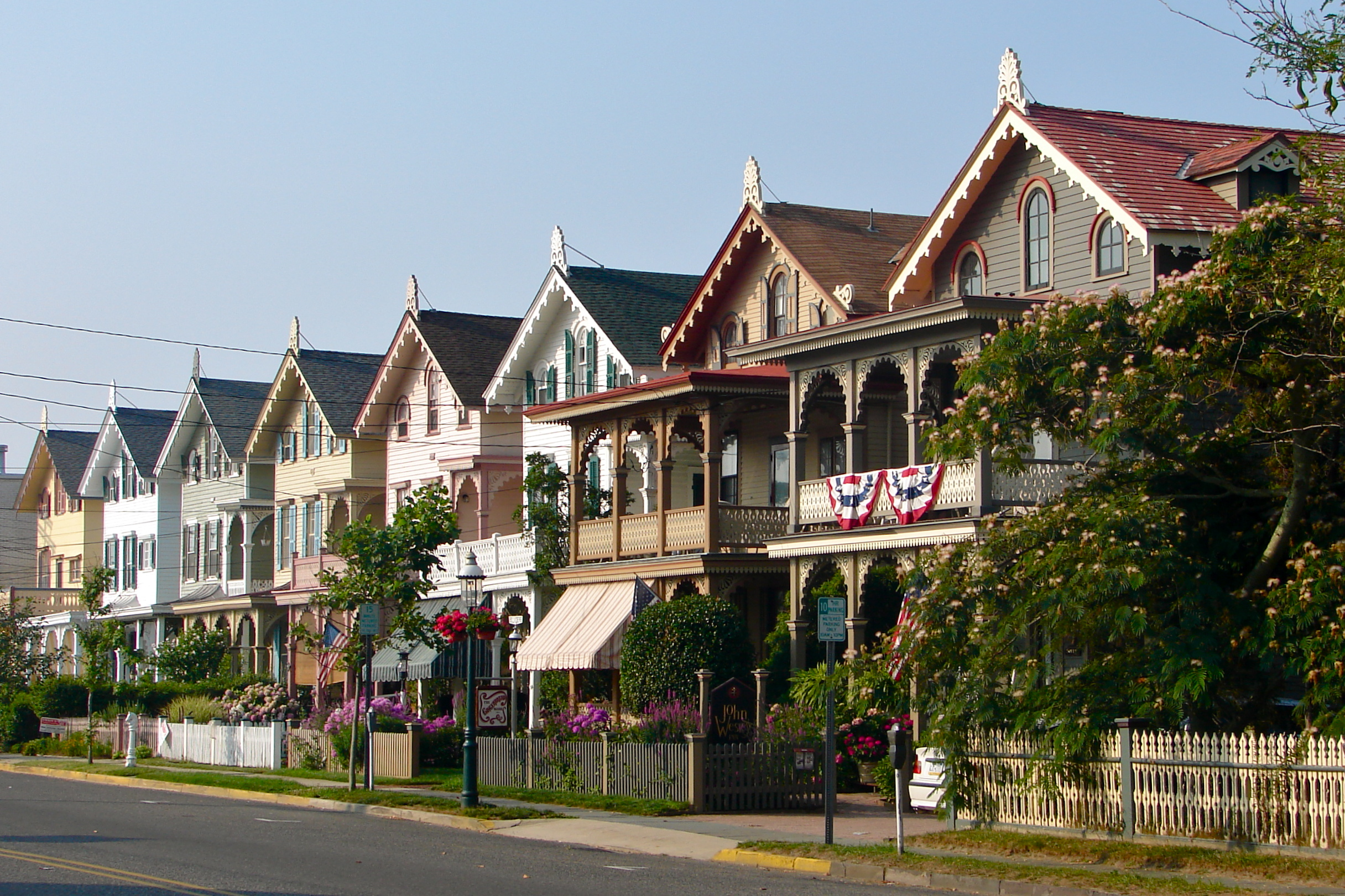 Row of buildings on Guerny Street known as "Stockton Place" in the Cape May Historic District, Cape May, New Jersey. Designed by Stephen Decatur Button. 14-30 Guerney Street (even numbers only)